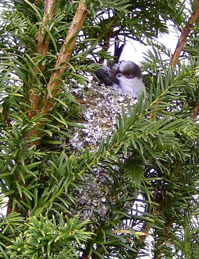 Aegithalos caudatus chick, 2.5.2015, Frankfurt